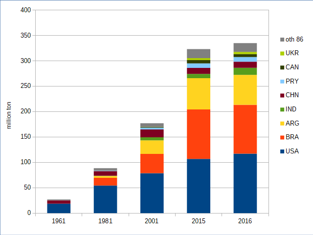 world production of soybeans by country (from 1961) Country codes is ISO_3166-1_alpha-3 Source; Food and Agriculture Organization FAOSTAT Production/Crops